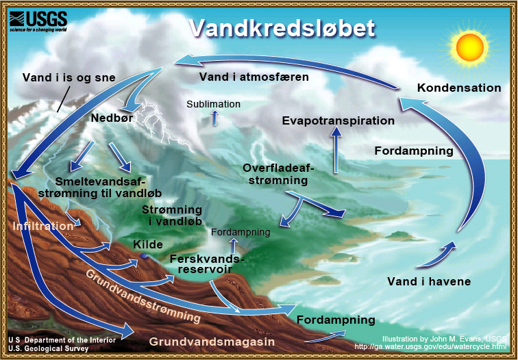 Water-Cycle Diagram (Danish)